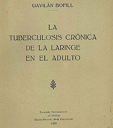 Book: Chronic tuberculosis of the larynx in the adult. Valladolid (Spain): Talleres tipográficos Cuesta; 1935.